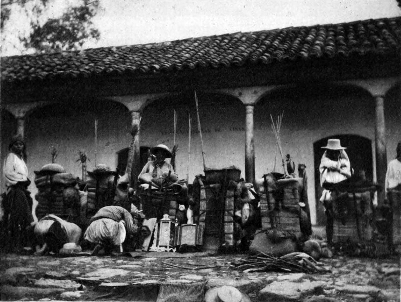 Esquipulas Pilgrims in Panajachel, Sololá, ready for a night ritual in 1895.